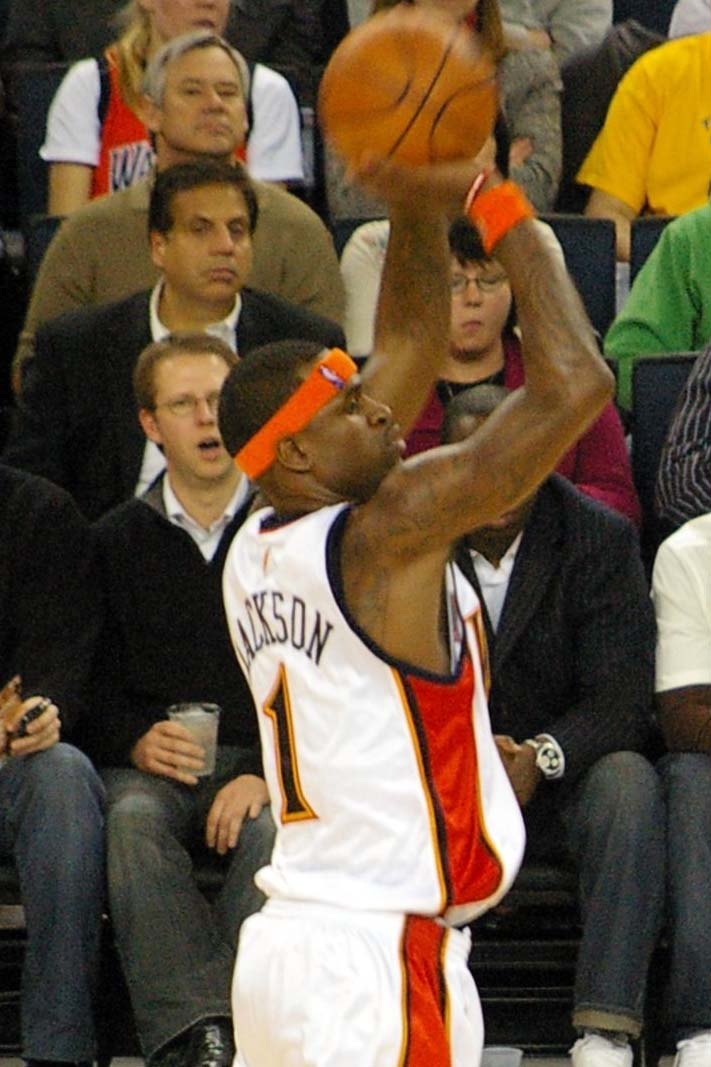 This file has been extracted from another file: S-Jax Nas.jpg